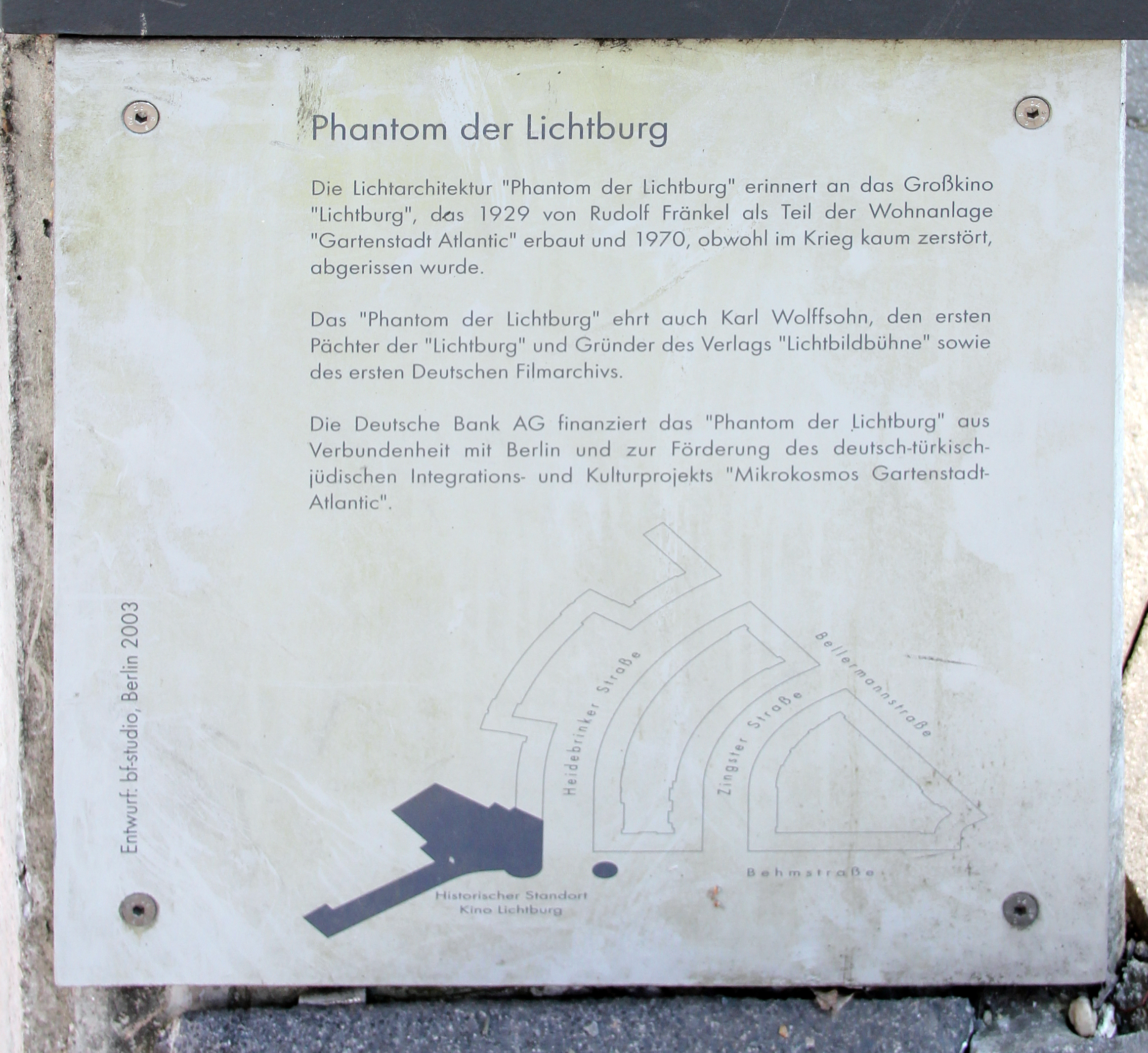 Memorial plaque, Phantom der Lichtburg, Behmstraße 9, Berlin-Gesundbrunnen, Germany